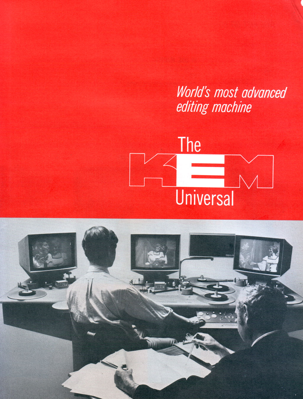 The front of a 4 page brochure by the U.S. distributor of the German-made modular editing system, the KEM.